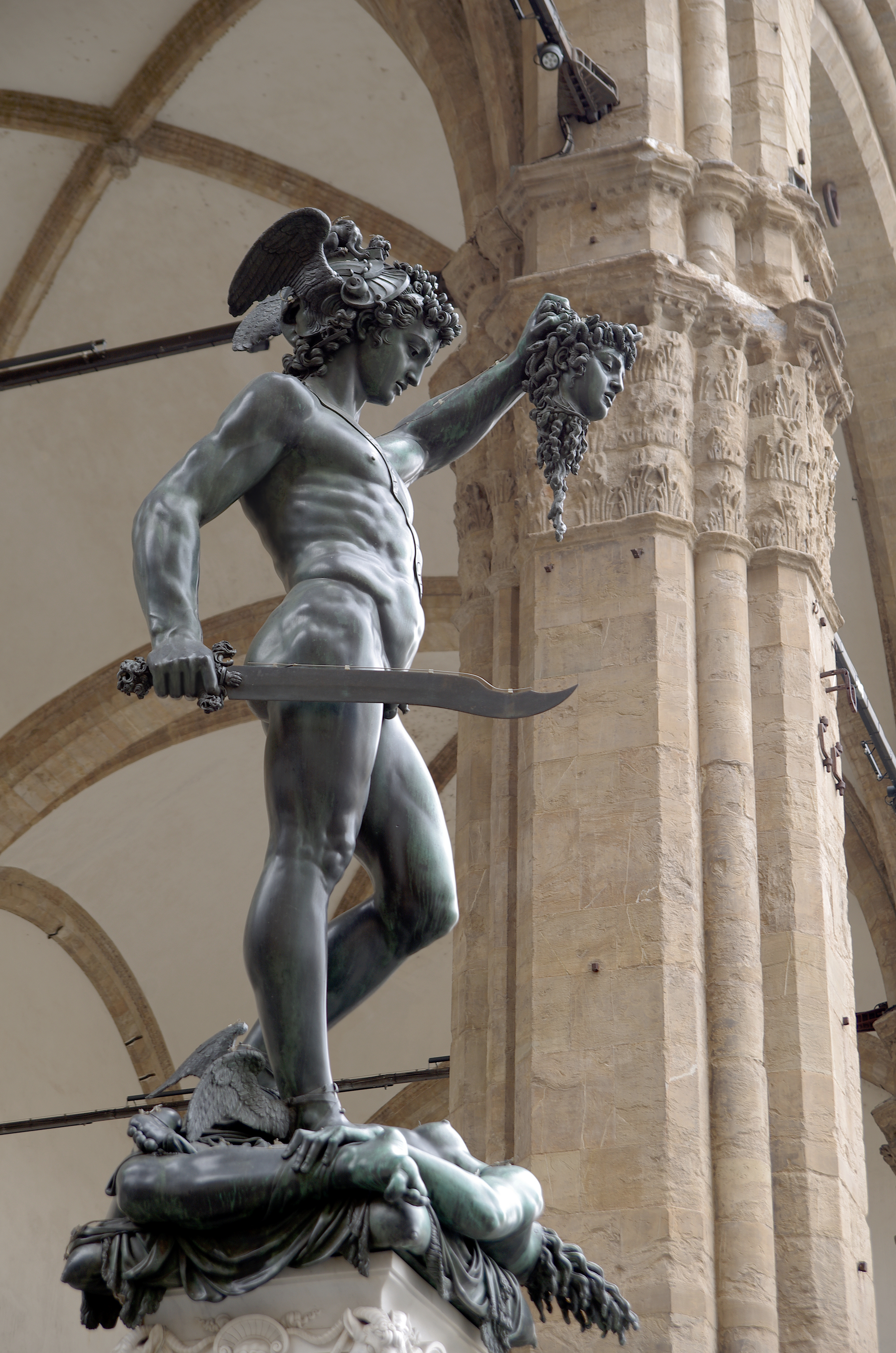 03 2015 Perseus with the Head of Medusa-Benvenuto Cellini-Piazza della Signoria-Loggia dei Lanzi-vault-Corinthian (Florence) Photo Paolo Villa FOTO9260